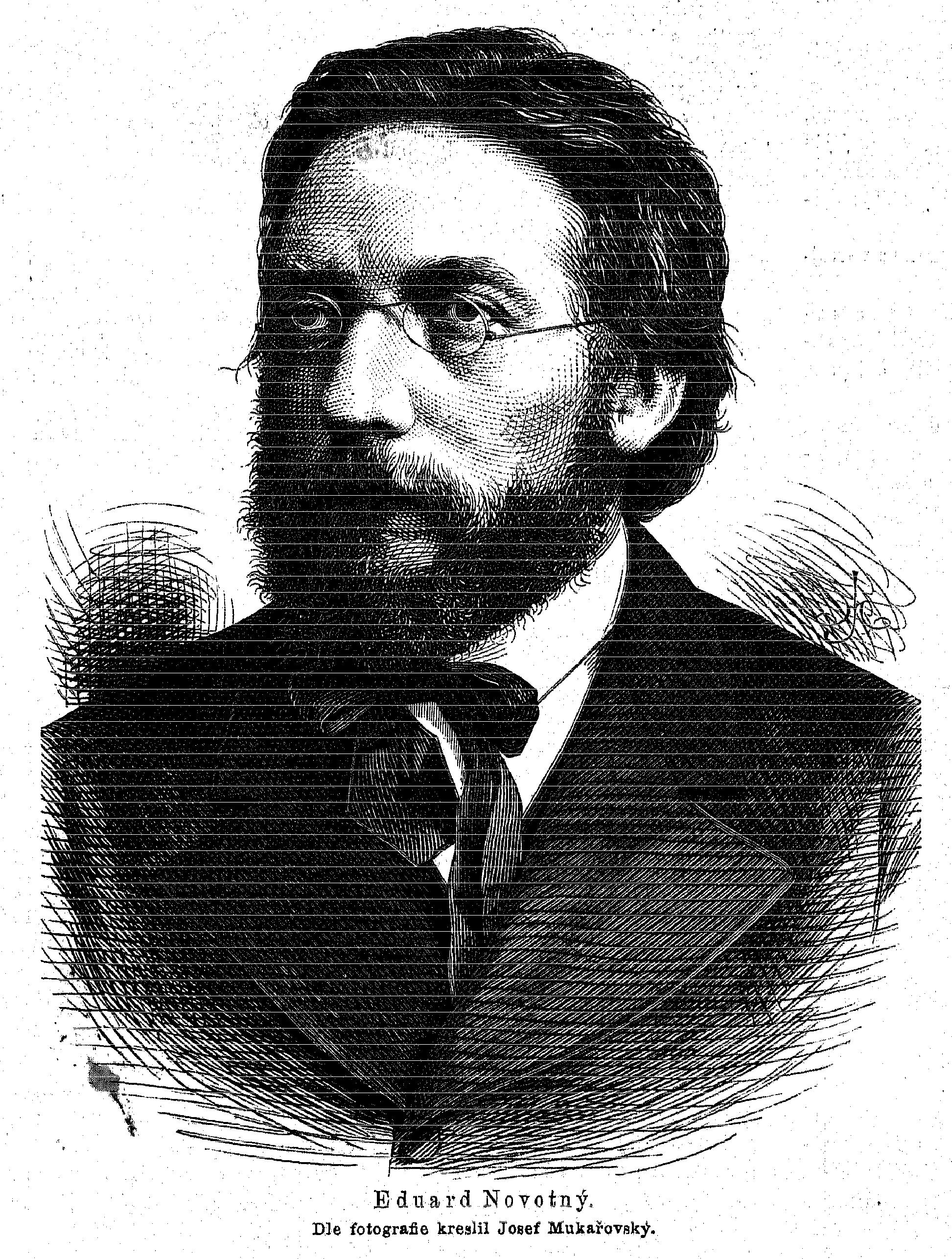 Portrait of Eduard Novotný (1833 - 1876), Czech high-school teacher, linguist and promoter of stenography